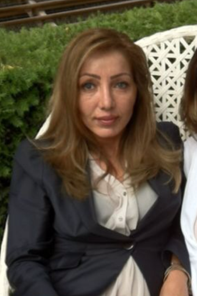 Aysel Erbudak